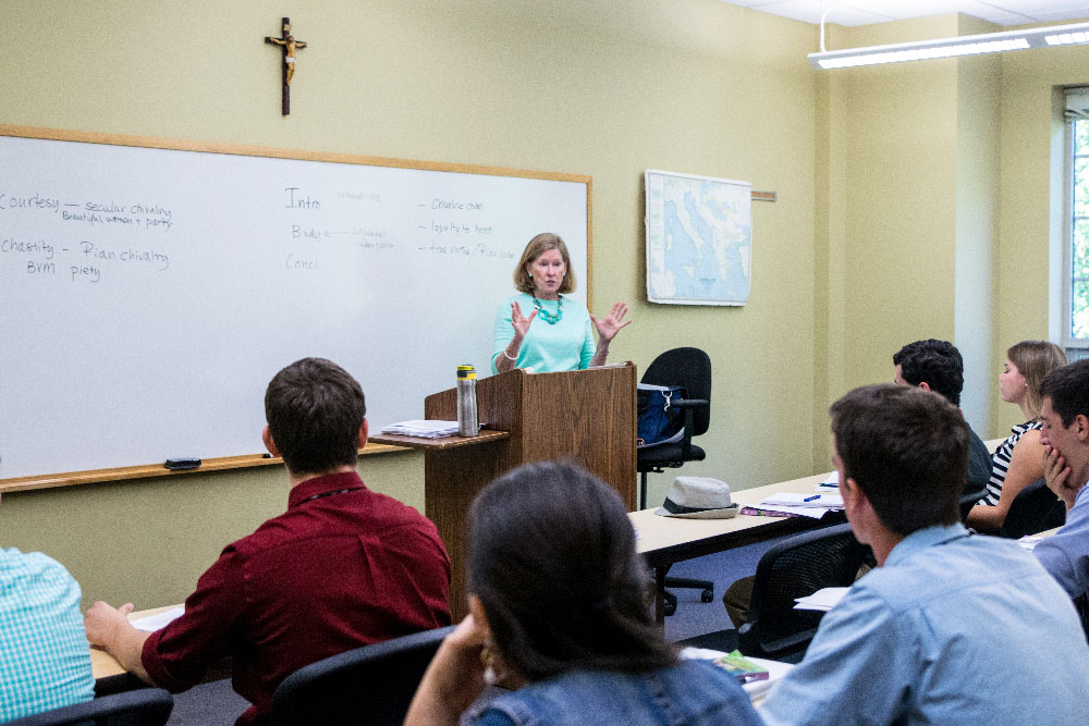 Students learning English Language and Literature.